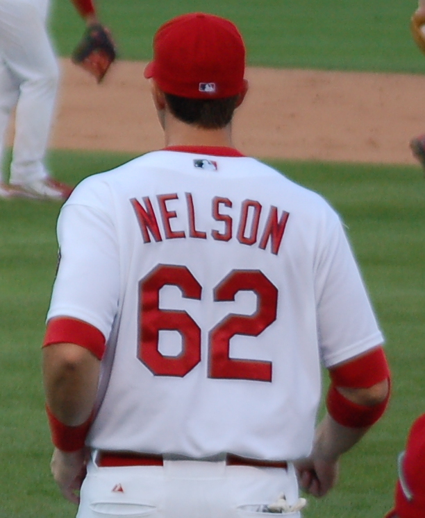 The St. Louis Cardinals celebrate a win after a 2005 game at Busch Memorial Stadium.